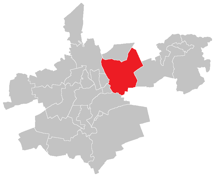 Location map of Olomouc district Chválkovice